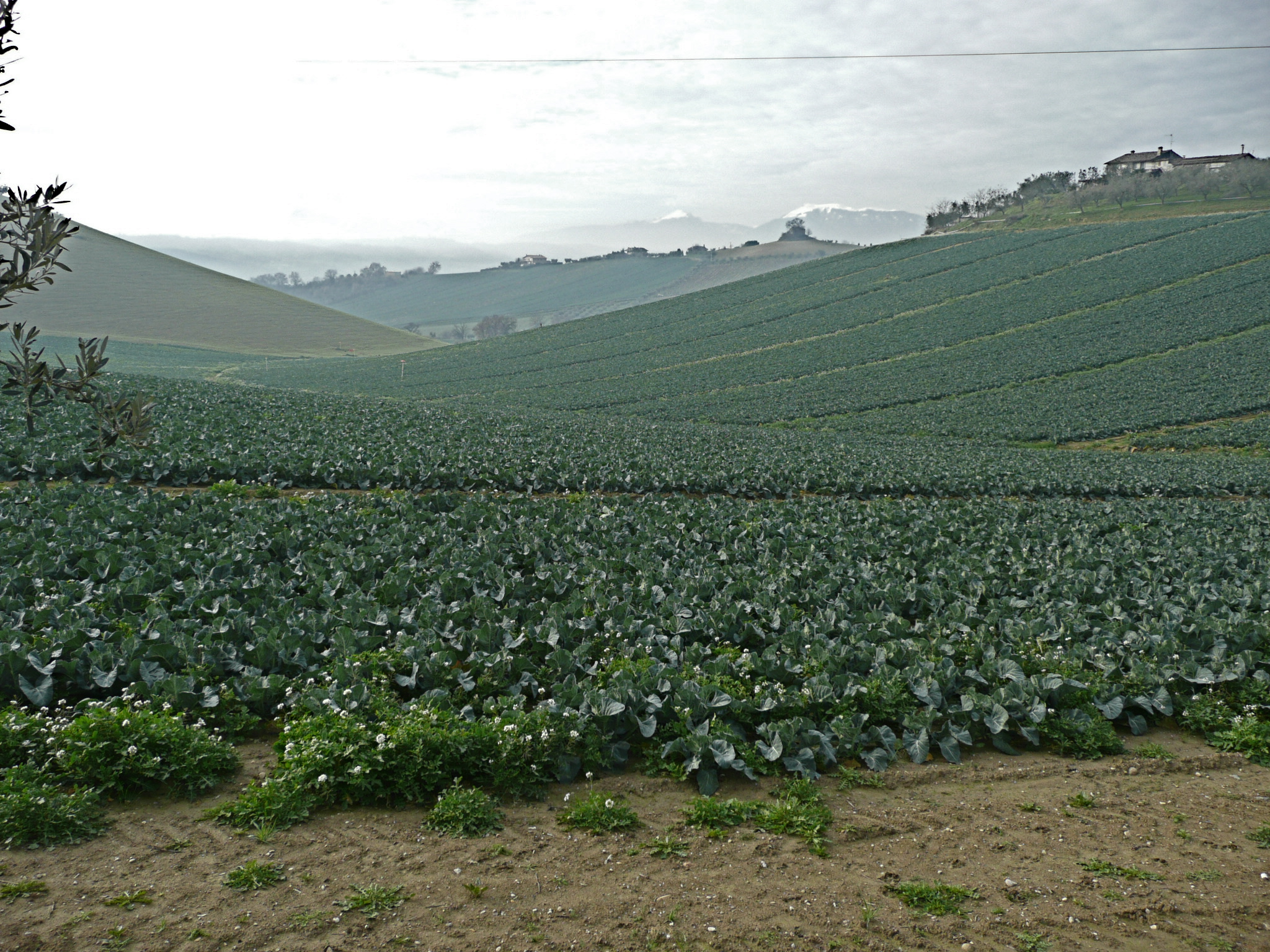 Cauliflower (Brassica oleracea var. botrytis) field in Italy